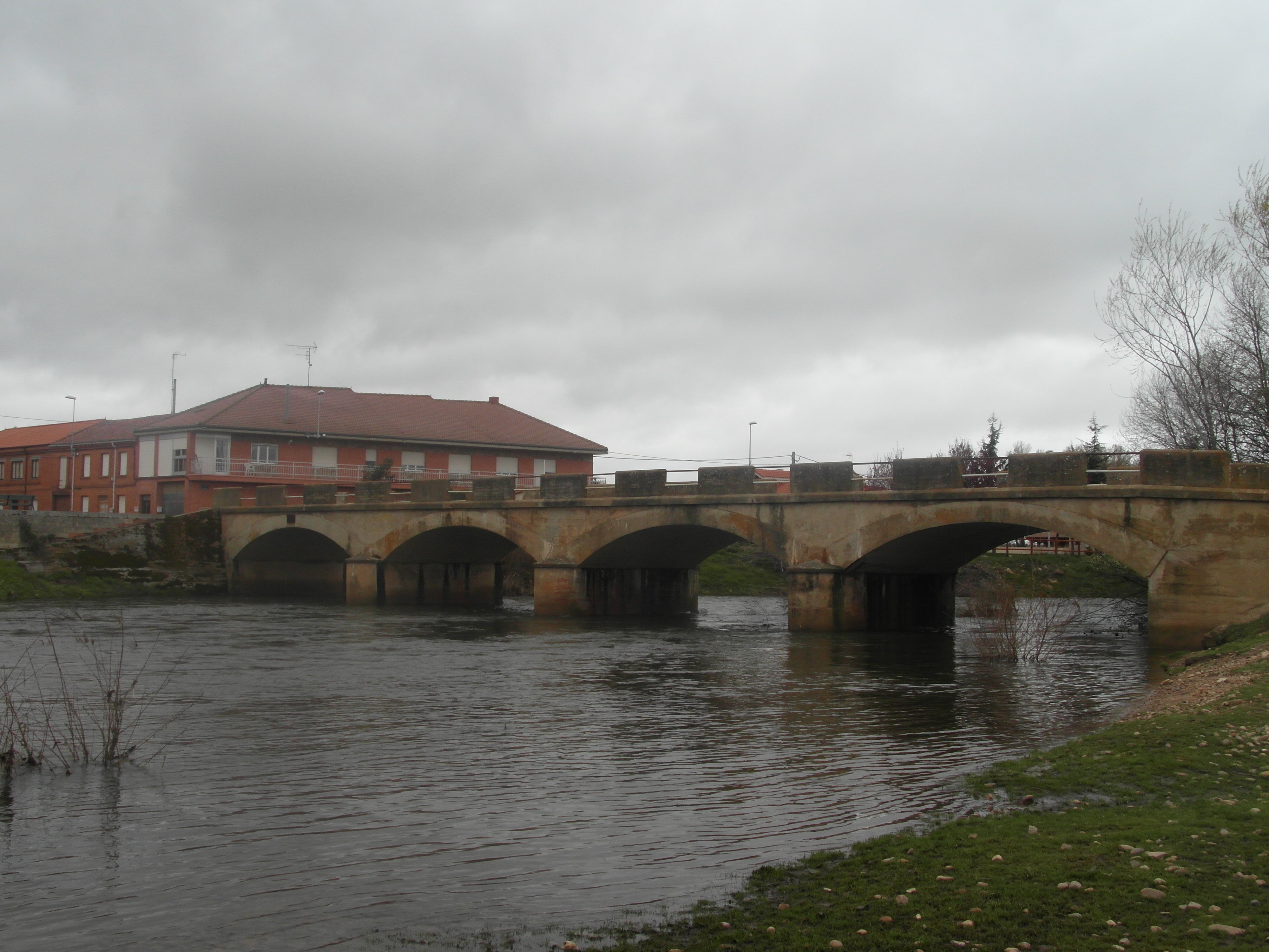 Puente sobre el río Tuerto en Santa Maria de la Isla